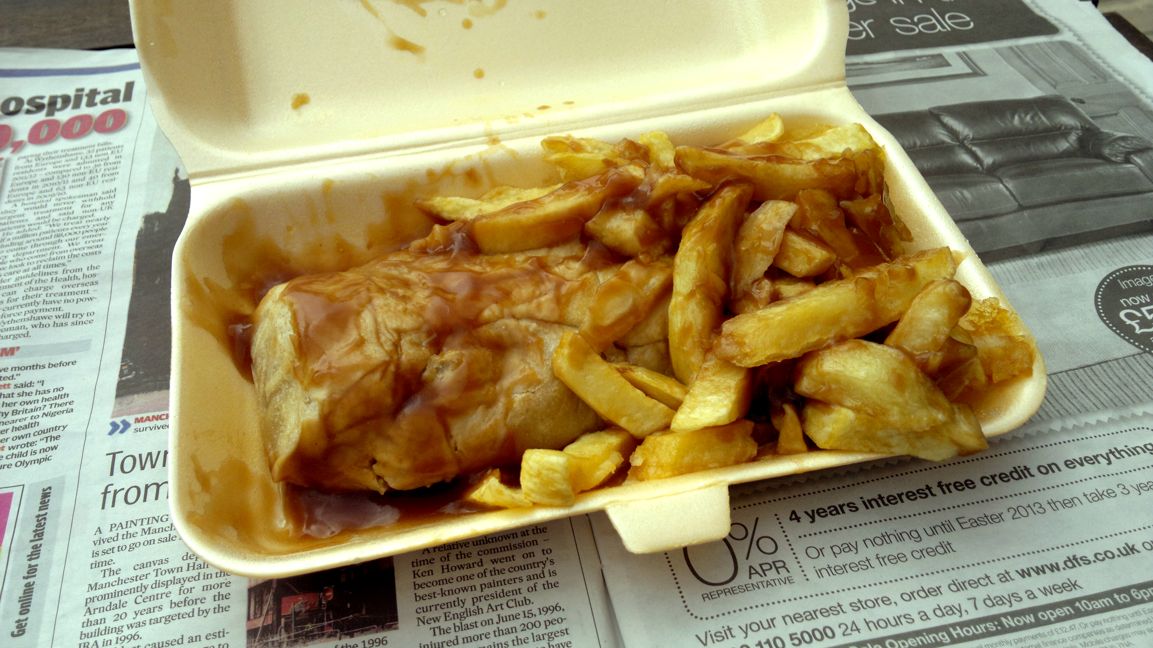 Rag Pudding served with Chips and Gravy. This meal is a delicacy from Oldham - part of the native cuisine of Greater Manchester - and can be purchased from many Fish 'n' Chip shops in the region.